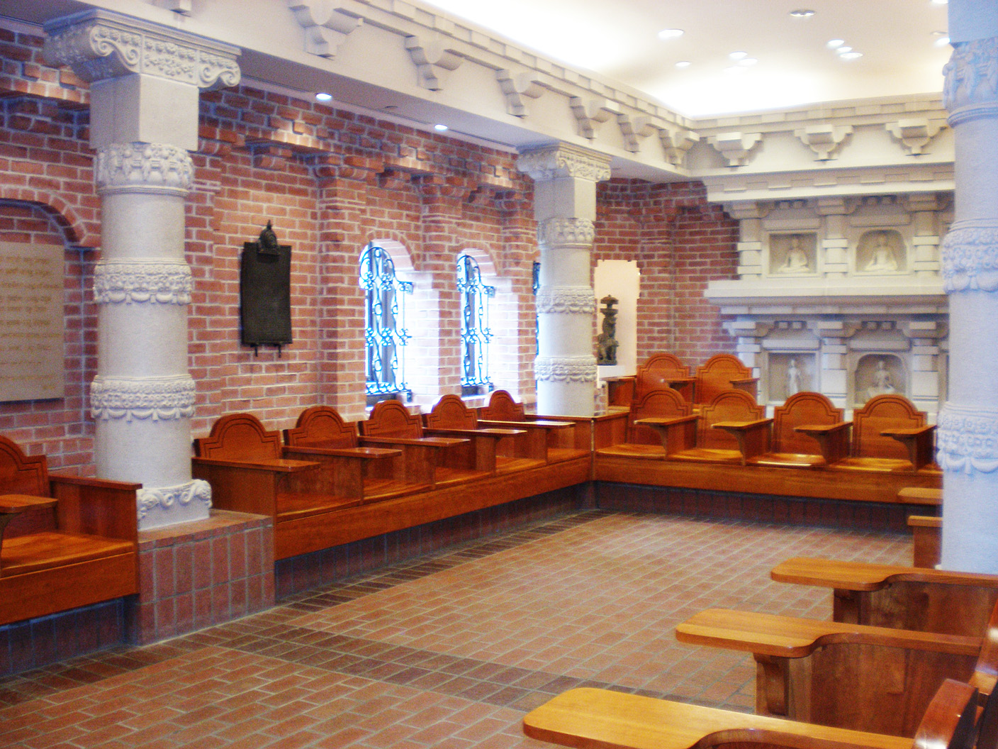 Indian Nationality Room in the Cathedral of Learning at the University of Pittsburgh